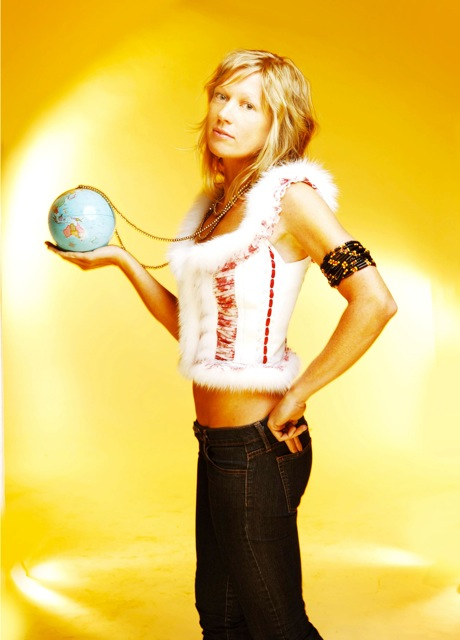 A portrait of Cassandra Fahey